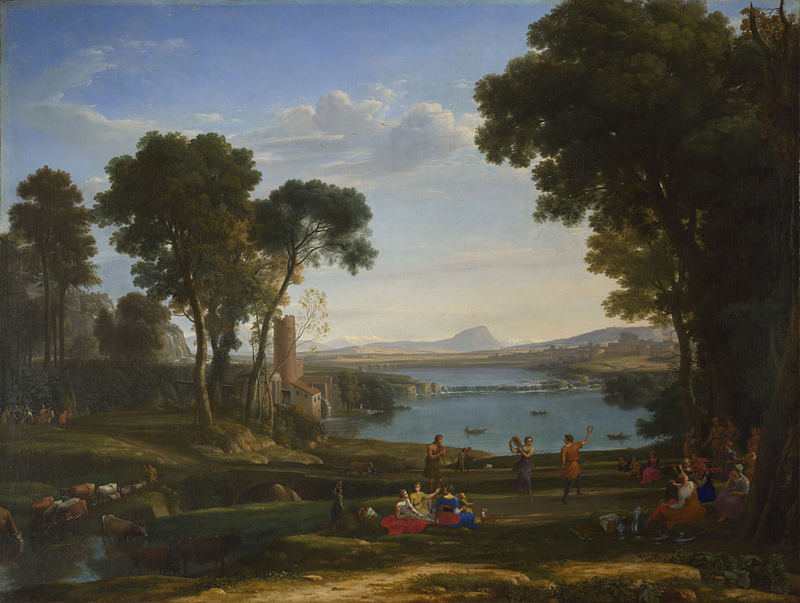 Arcadian scene, the connection with the biblical story of Isaac and Rebecca is Claude's inscription on the tree stump in the centre. Another version without the inscription is called 'The Mill' (now in the 'Palazzo Doria Pamphilij' in Rome).